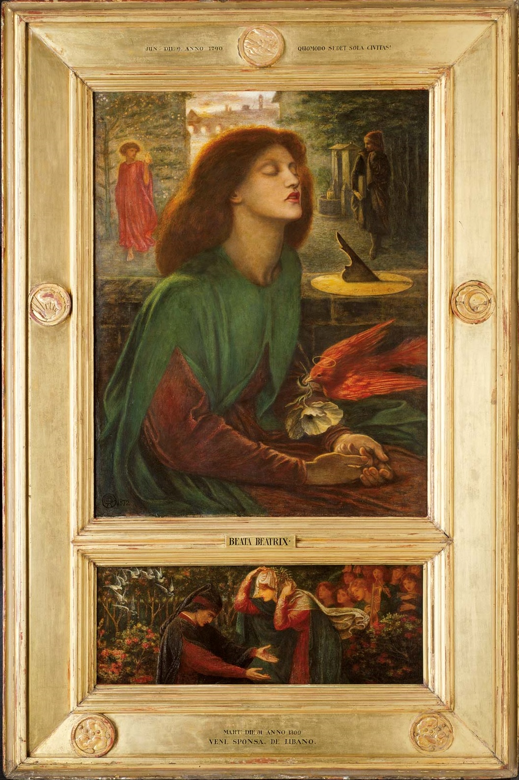 Artists copy of the original painting but with a predella depicting the artist and his wife (the model of the painting in the upper panel) meeting in paradise. The piece includes a frame designed by Rossetti. Given by bequest to the Art Institute of Chicago by its first president Charles Lawrence Hutchinson (1864-1924)